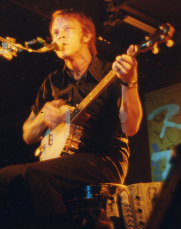 David Eugene Edwards of 16 Horsepower performing live in 1998.